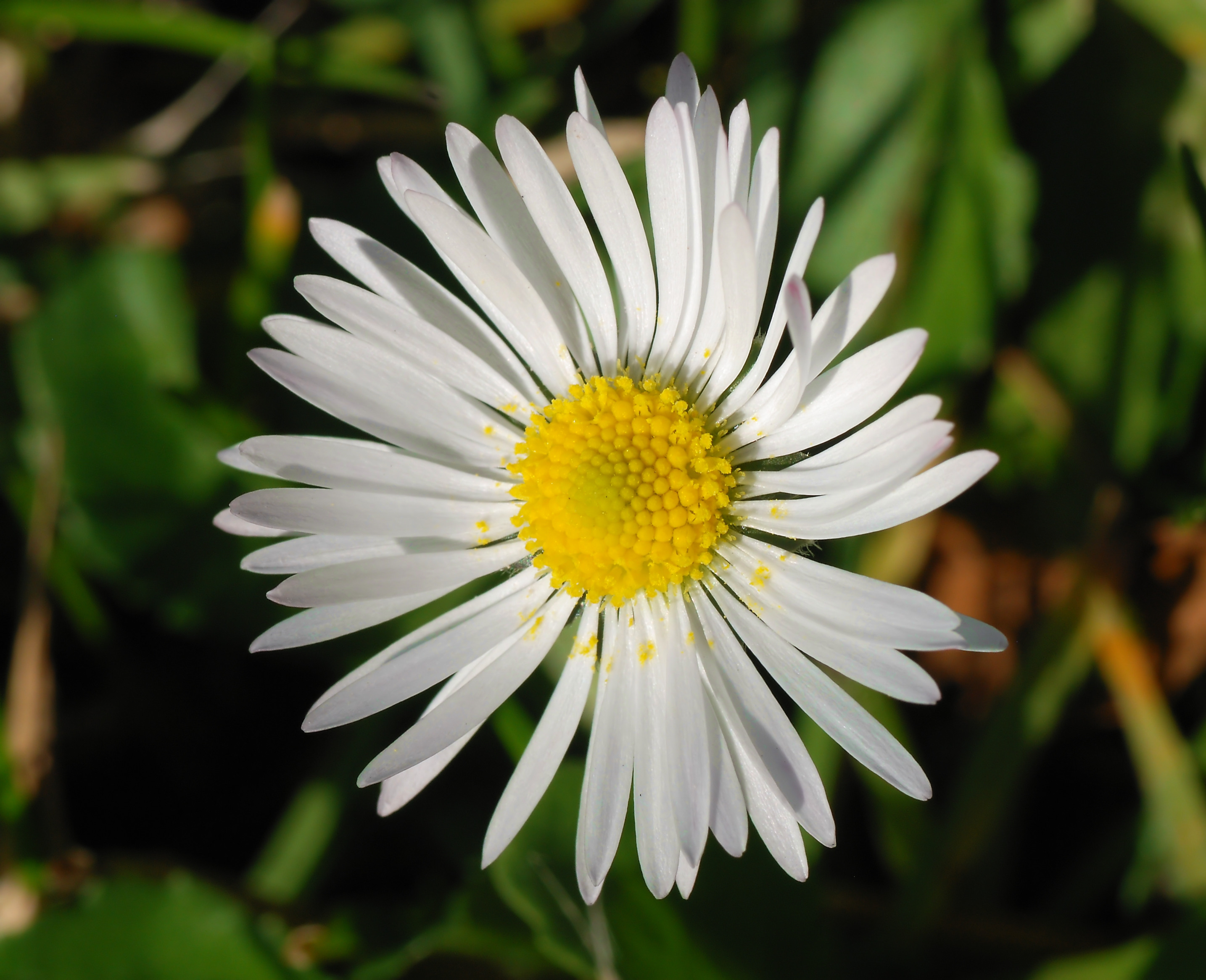 Southern Daisy